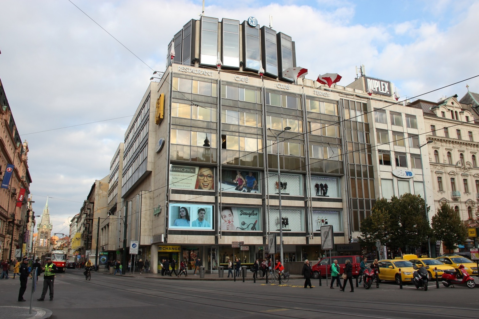 Czech Management Association building in Czech Republic